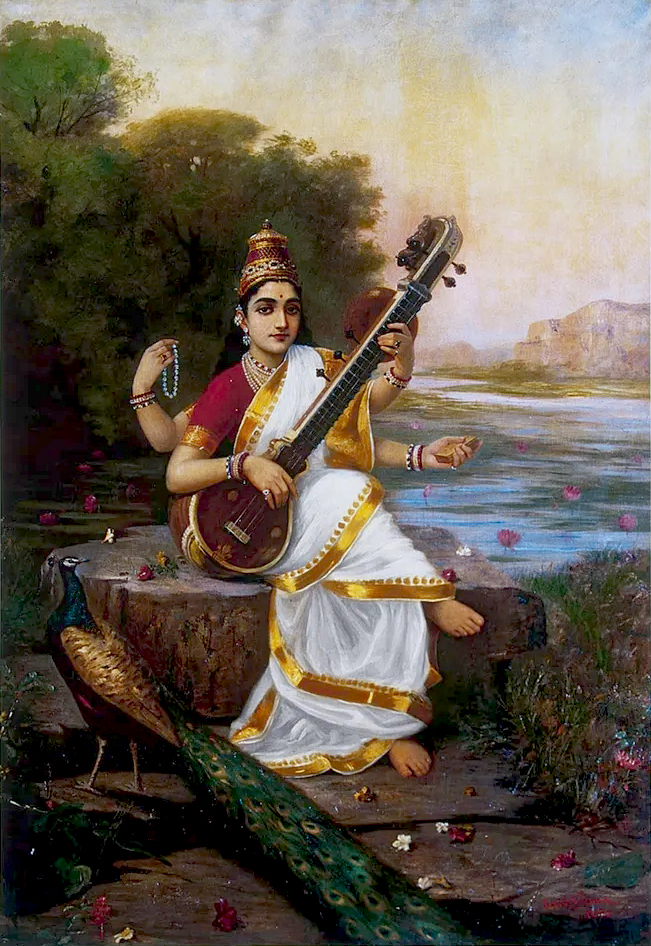 Painting of the Goddess Saraswati by Raja Ravi Varma